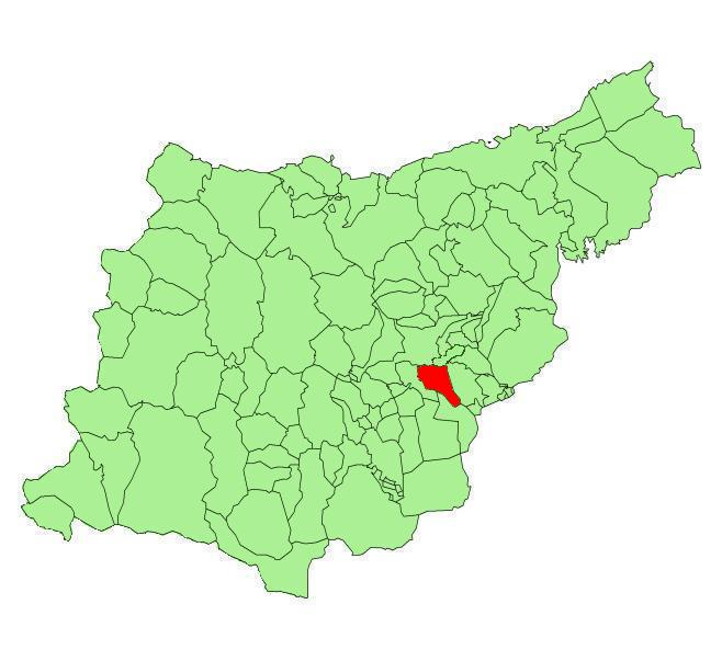 Altzo municipality in the province of Guipuzcoa